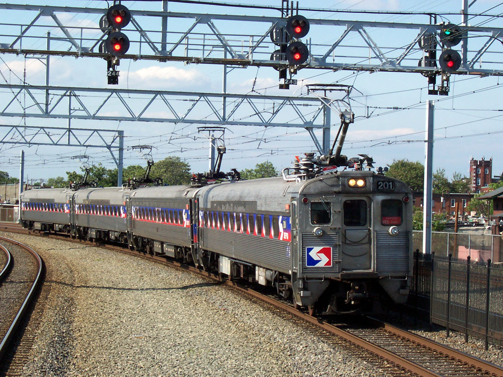 Train of SEPTA Silverliner II and III cars entering Temple University station.